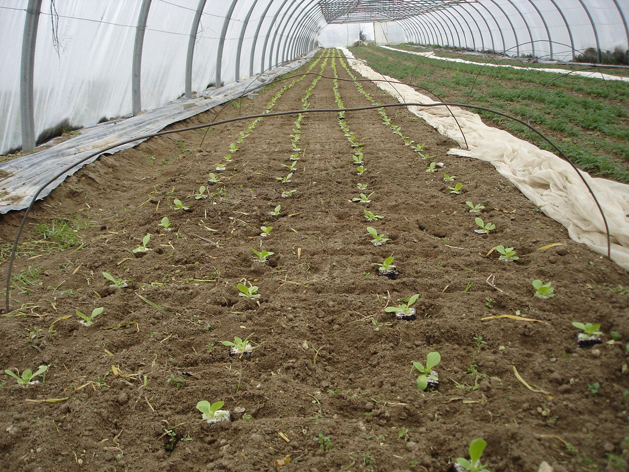 A transplanted bed of lettuce (Lactuca sativa) in a greenhouse.